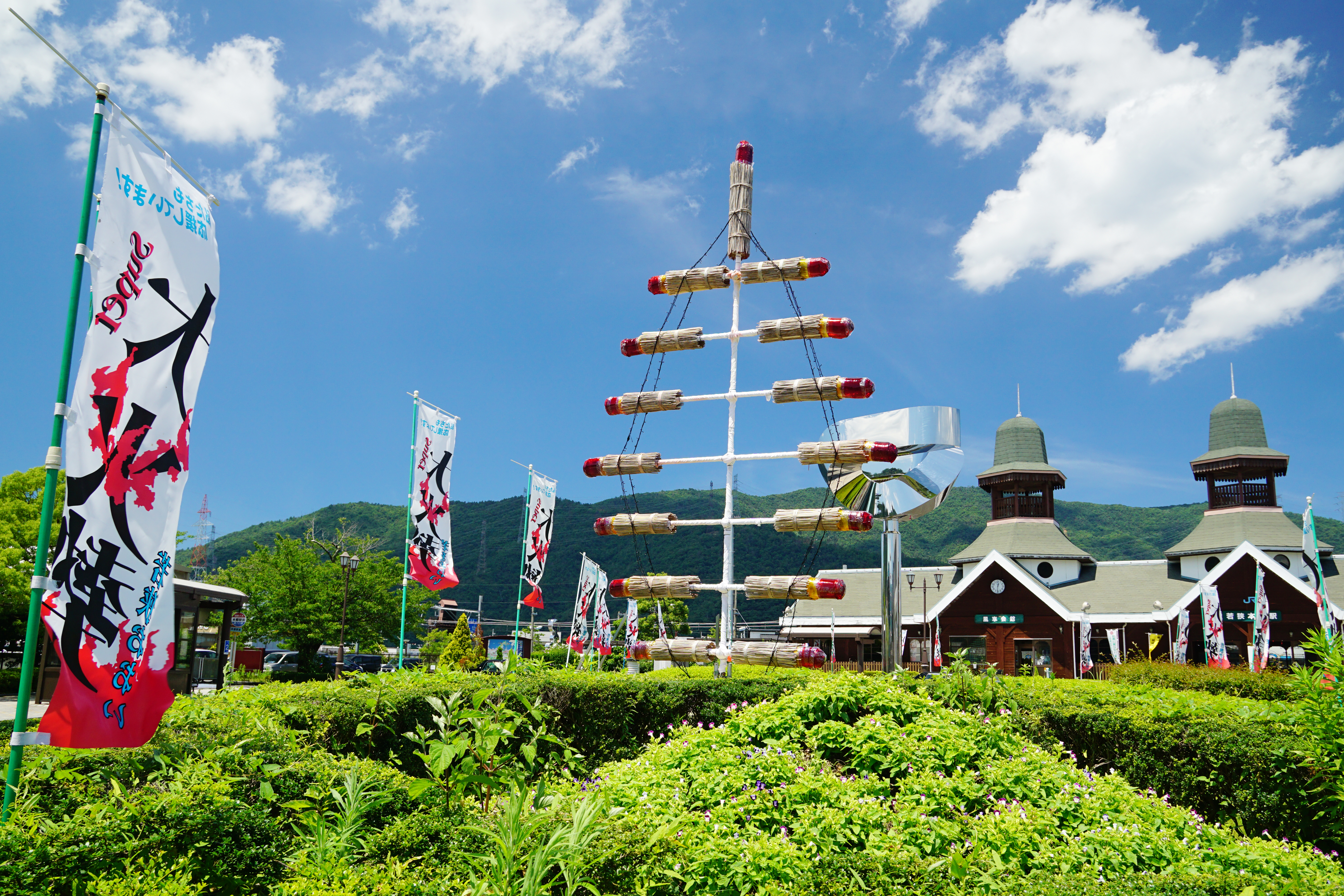 Wakasa-Hongō Station in Ōi, Fukui prefecture, Japan.